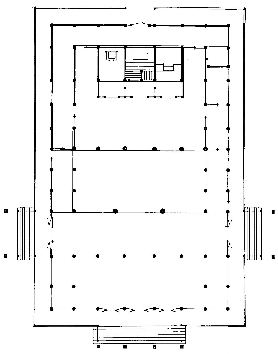 Layout of Zenko-ji at Kofu